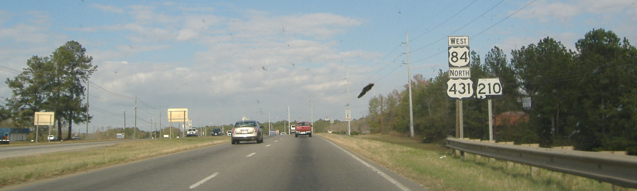 Ross Clark Circle counterclockwise just past US 84 on the east side of Dothan, Alabama. Includes new SR 210 shield erected sometime between April and October 2006. Photo taken by User:Pedriana December 29, 2006.